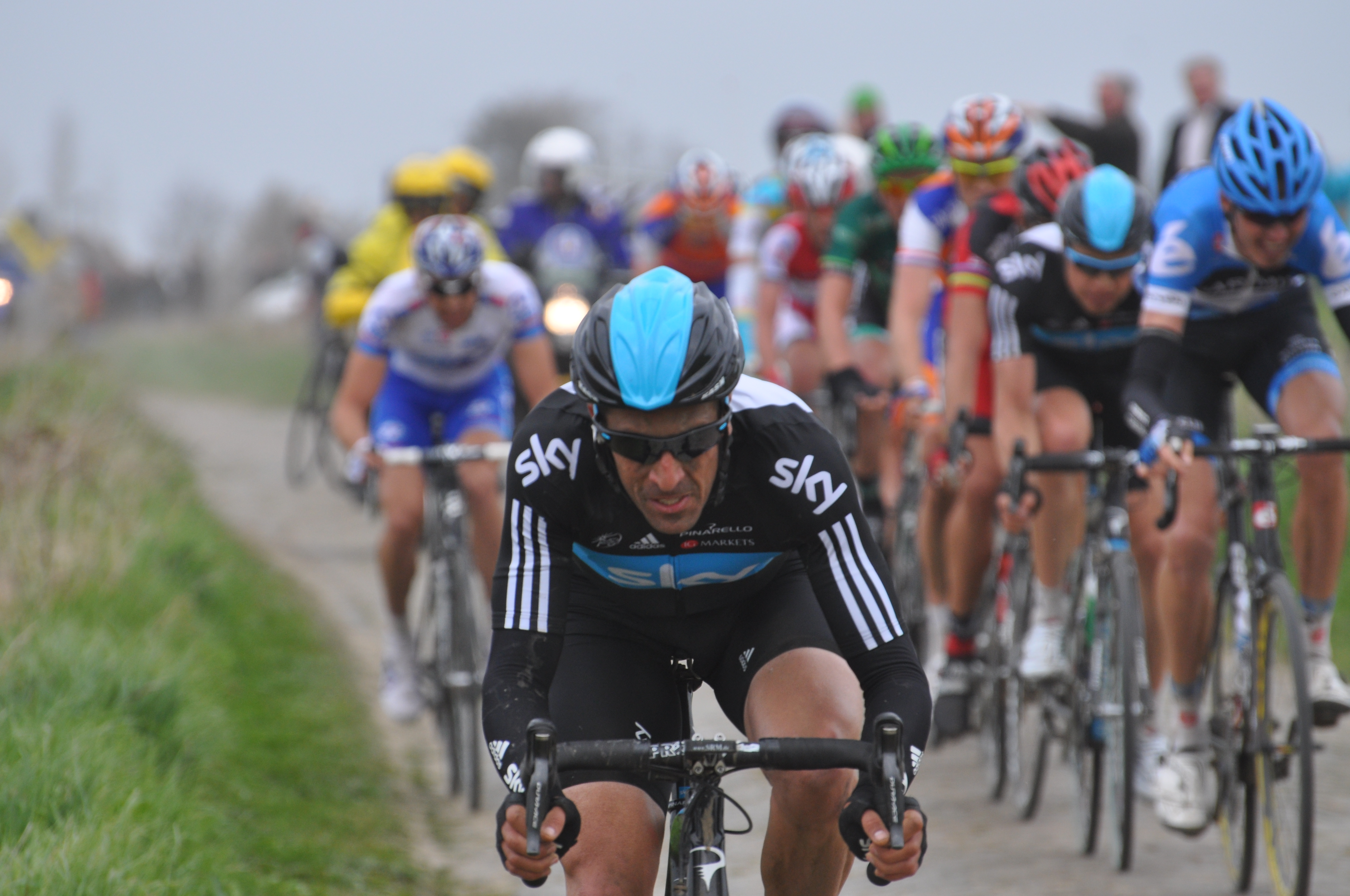 Juan Antonio Flecha at the 2012 Paris-Roubaix